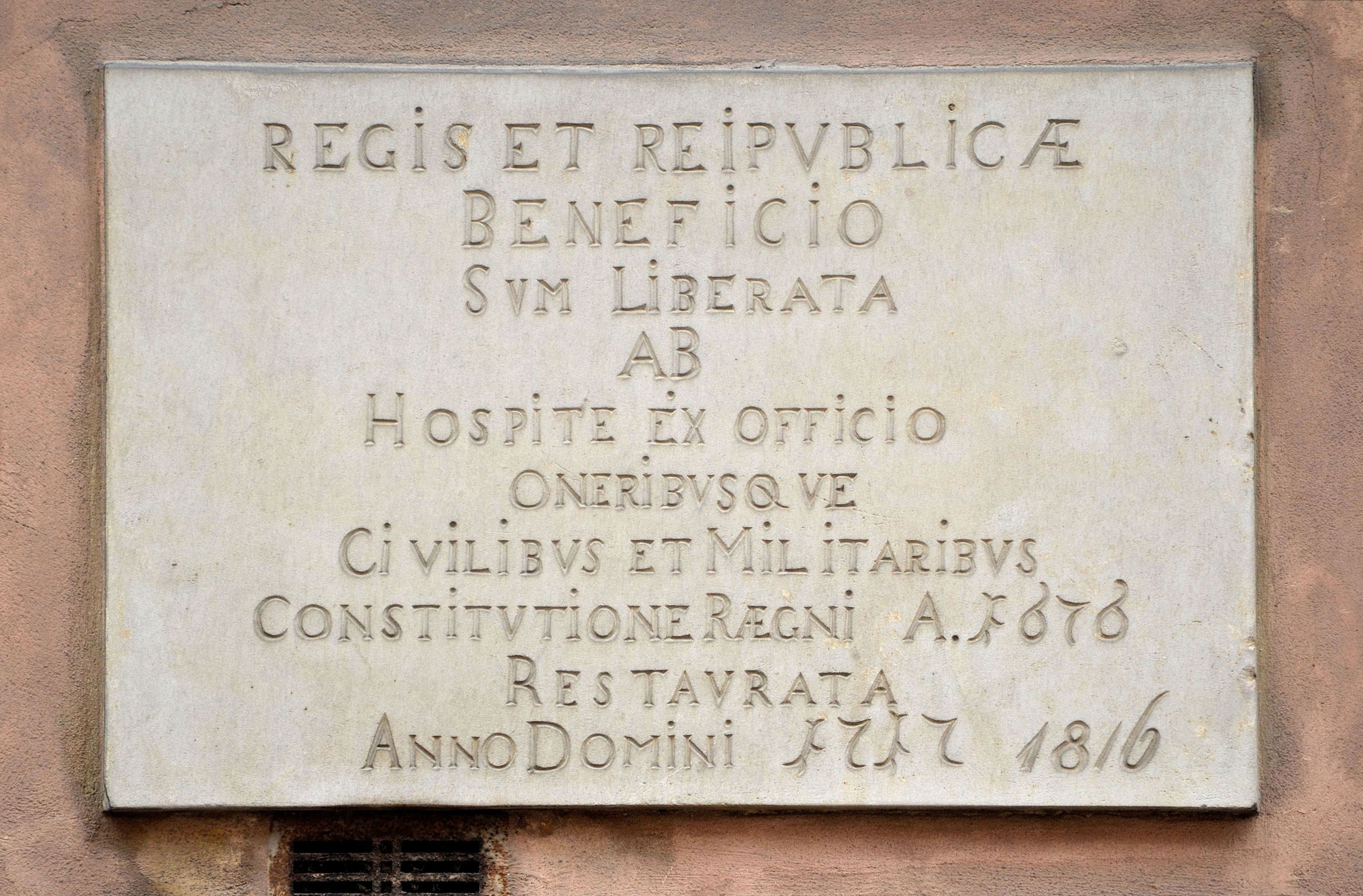 Libertatio plaque at 21 Świętojańska Street in Warsaw